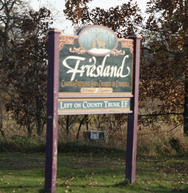 The welcome sign Friesland, Wisconsin along Wisconsin Highway 33.